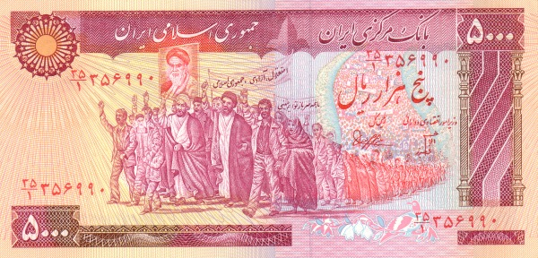 5000 IRR banknote (1981 issue)